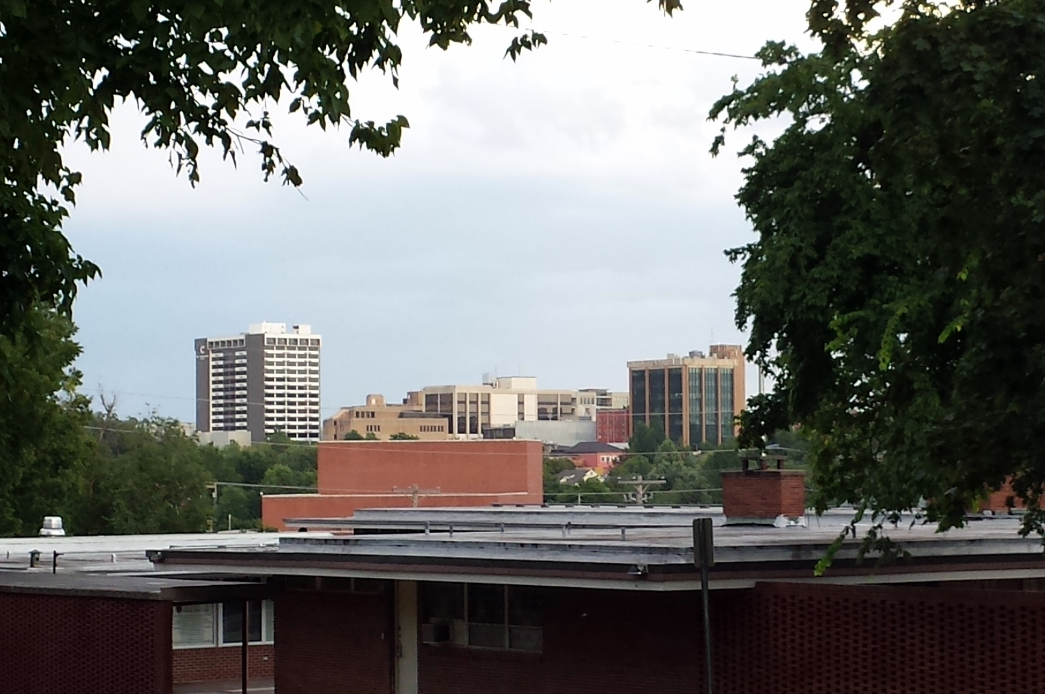 Fayetteville skyline as viewed from Old Main lawn